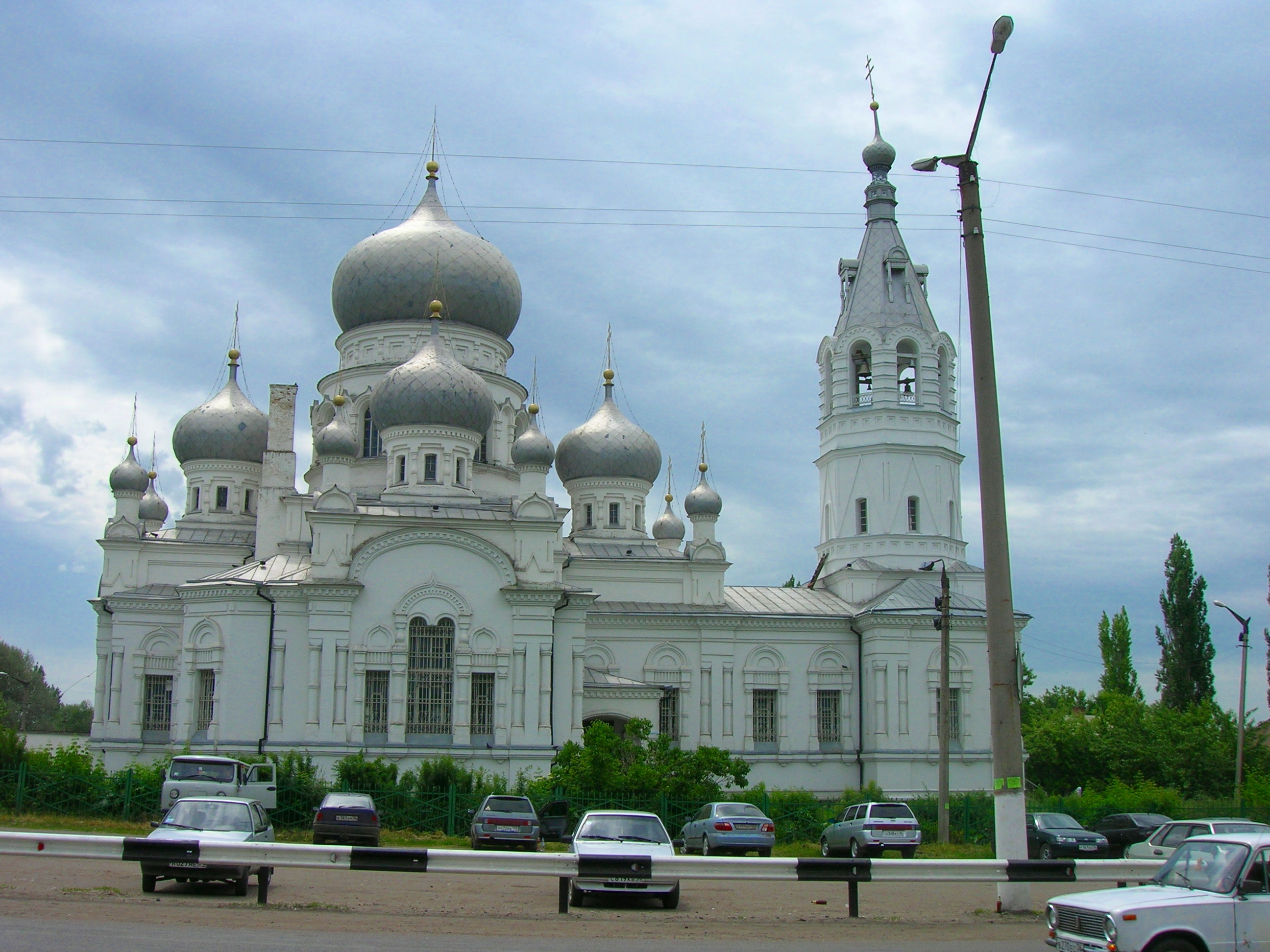 Church in town Anna, region of Voronezh